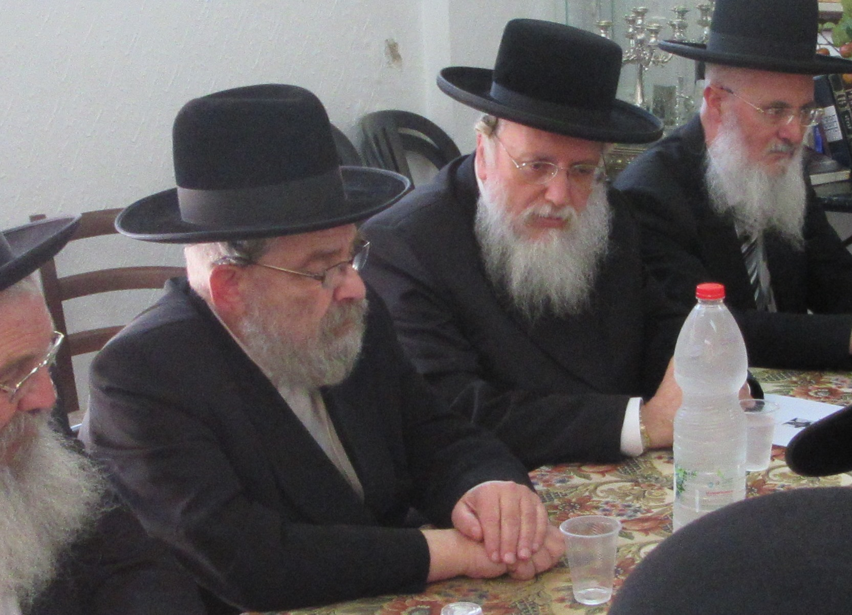 Rabbi Mordechai Friedlander at a meeting of Rabbis of Ramat Shlomo.